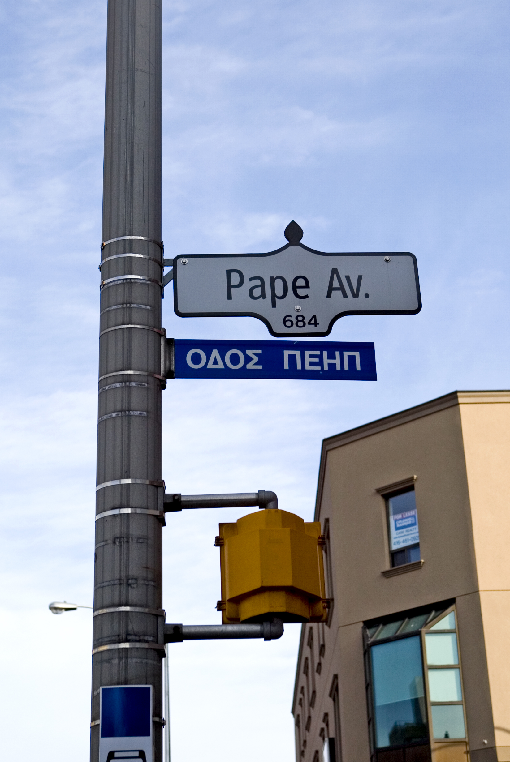 Street sign at Pape Avenue (ΟΔΟΣ ΠΕΗΠ) and Danforth Avenue in "Greektown", Toronto, CanadaGreek Street Name